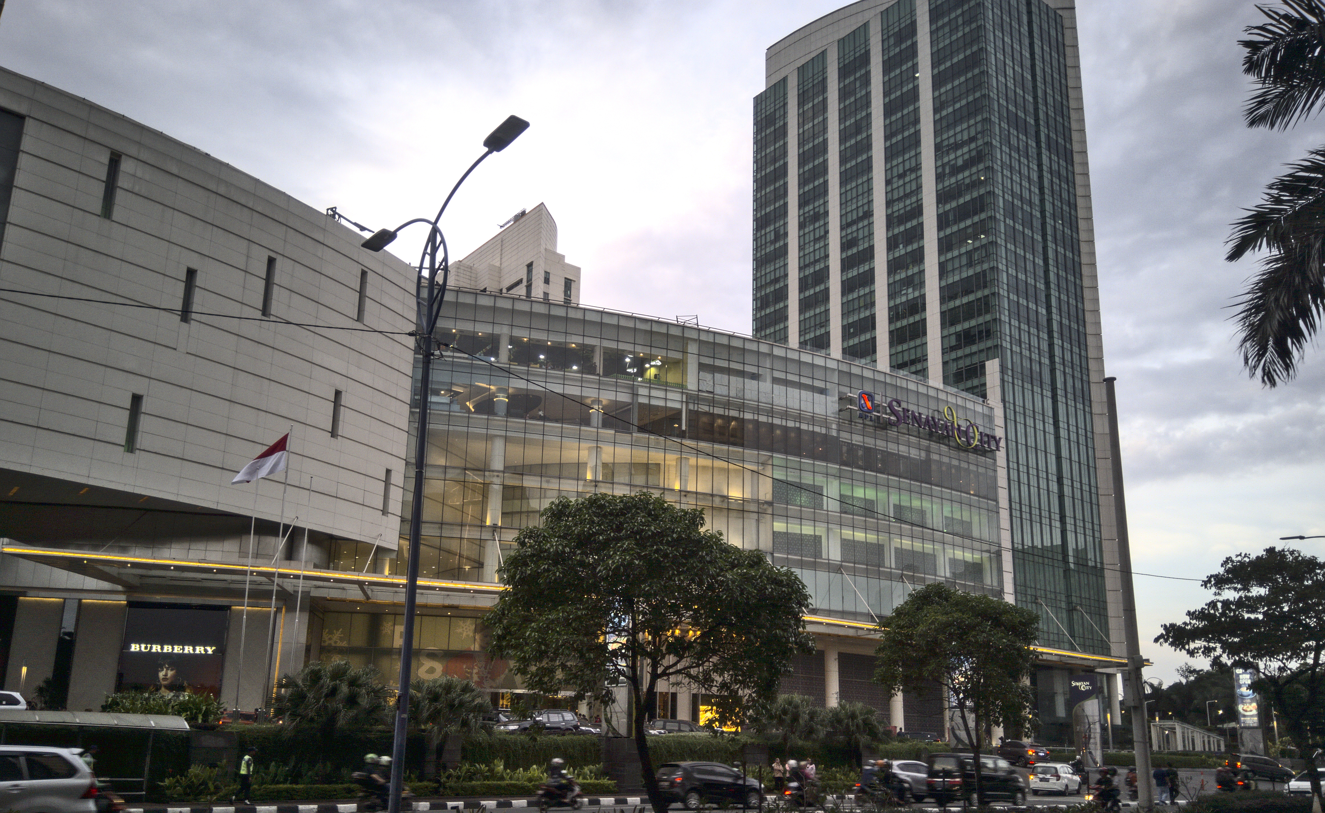 Exterior of Senayan City shopping centre